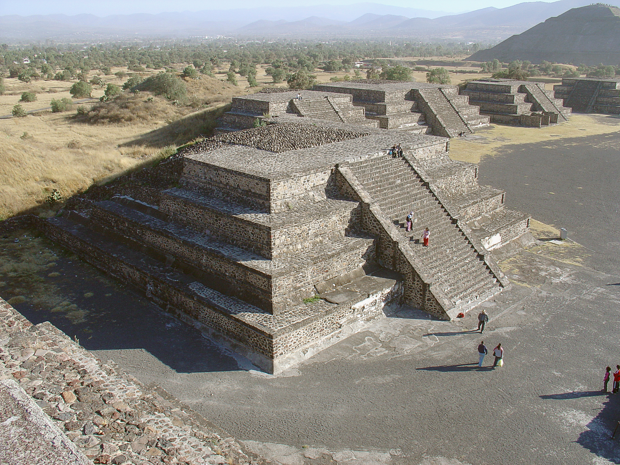 A small pyramid in Teotihuacan, Mexico, as viewed from the top of the Pyramid of the Moon.